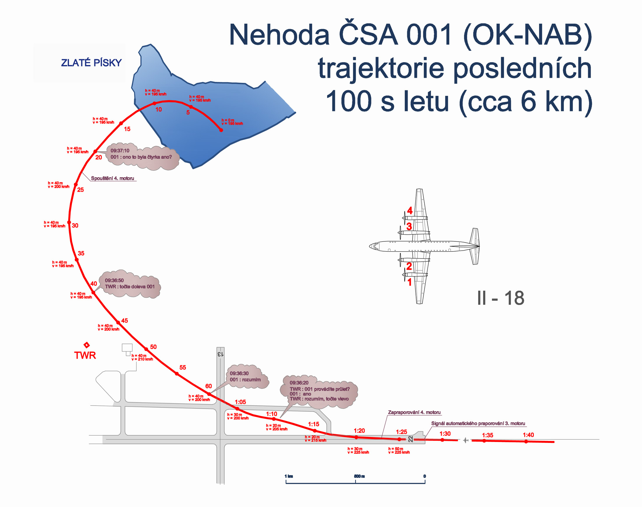 Air disaster of OK-NAB - last 100sec of the flight